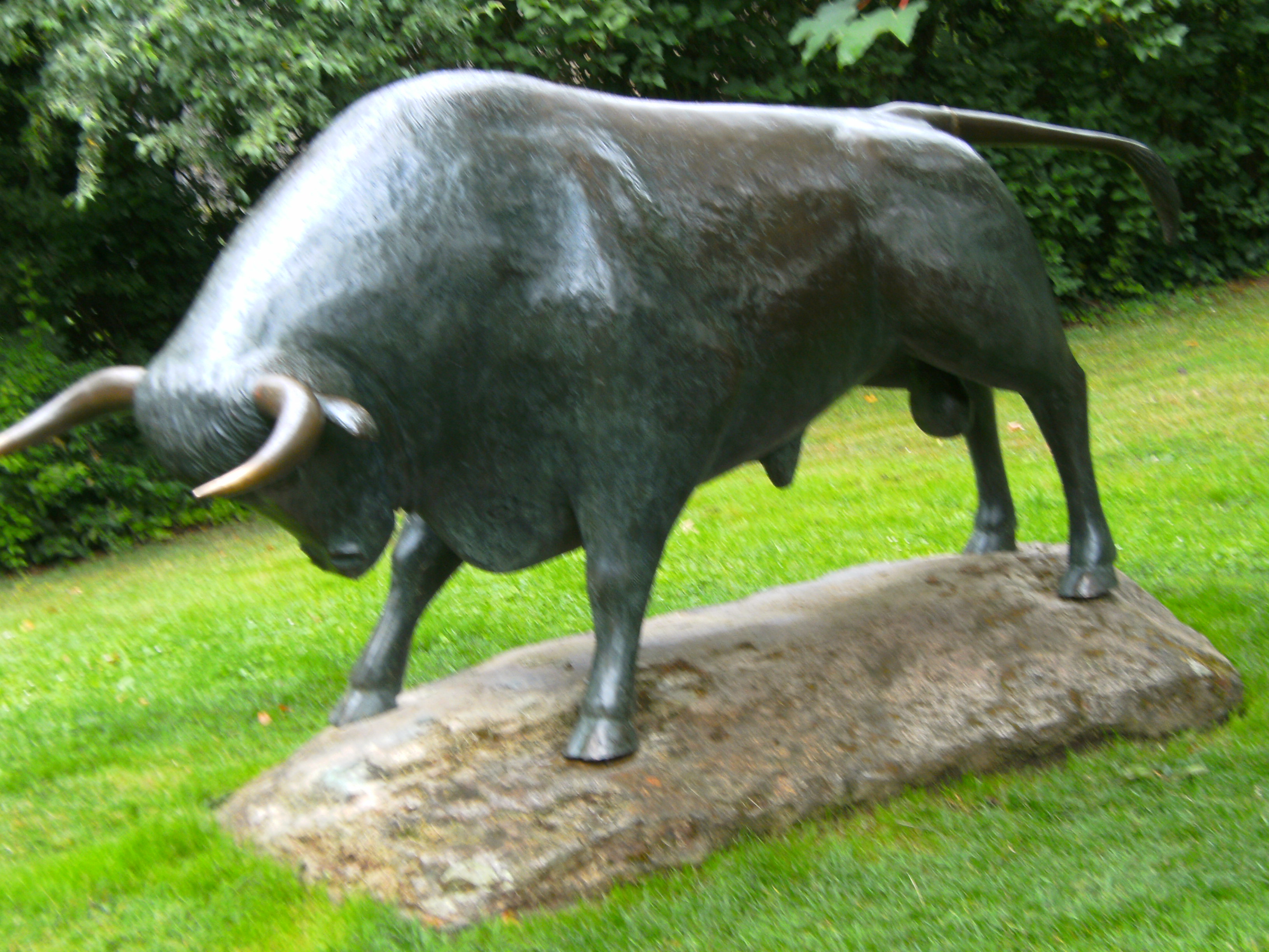 Festung Marienberg (fortress Marienberg), Würzburg, Germany: Landesgartenschau-Park. Sculpture of a bull by Reinhard Dachlauer, gift by twin town Salamanca, Spain. Near the rose garden.